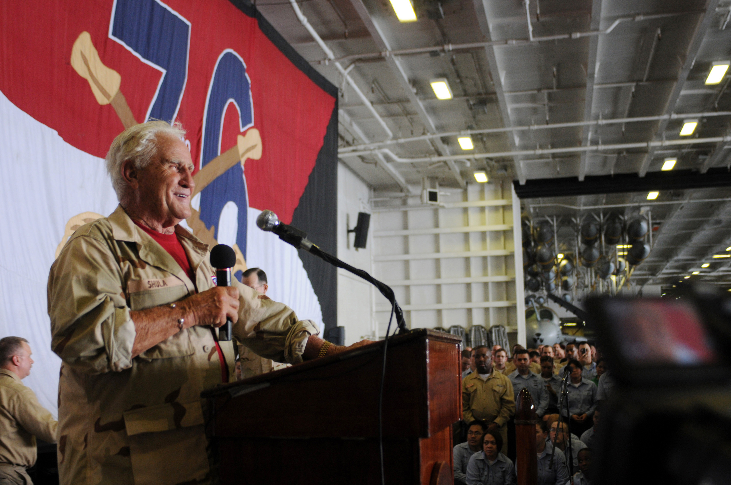 GULF OF OMAN (July 13, 2009) Former NFL head coach Don Shula addresses the crew of the aircraft carrier USS Ronald Reagan (CVN 76) during a USO Summer Troop Visit. Shula and other celebrities from sports, television and film visited Ronald Reagan to thank the crew for their service. Ronald Reagan is deployed to the U.S. 5th Fleet area of responsibility. (U.S. Navy photo by Mass Communication Specialist 2nd Class Joseph M. Buliavac/Released)